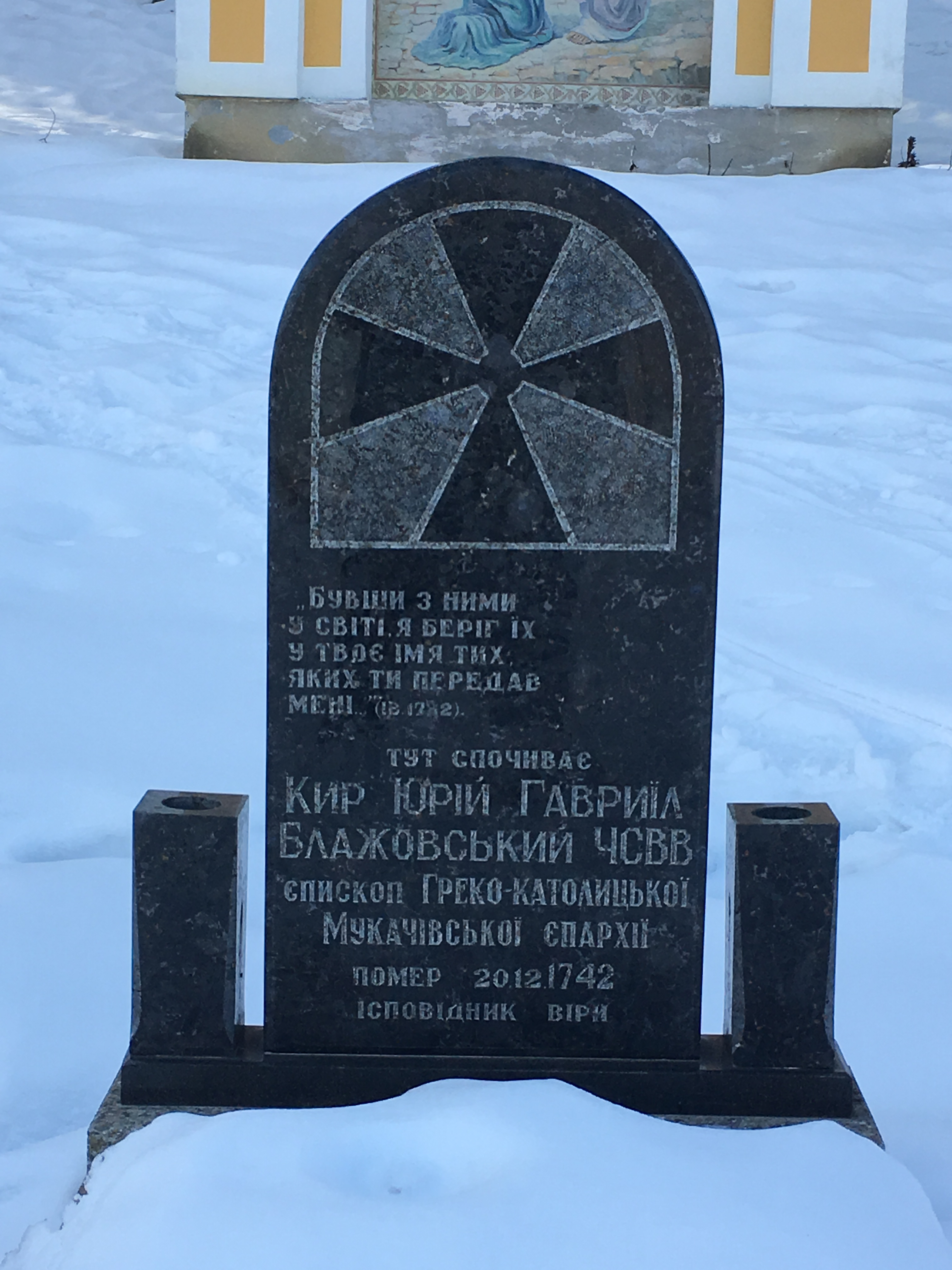 Gravestone at greek catholic St. Nicholas Monastery in Malyi Bereznyi Inschrift/напис/Inscription: „Бувши з ними у свiтi я берiг їх у твоє iмя тих яких ти передав менi..“ (Ів.17.2) Тут спочиває КИР ЮРІЙ ГАВРИЇЛ БЛАЖОВСЬКИЙ ЧСВВ єпископ Греко-католицької Мукачiвської єпархiї помер 20.12.1742 iсповiдник вiри